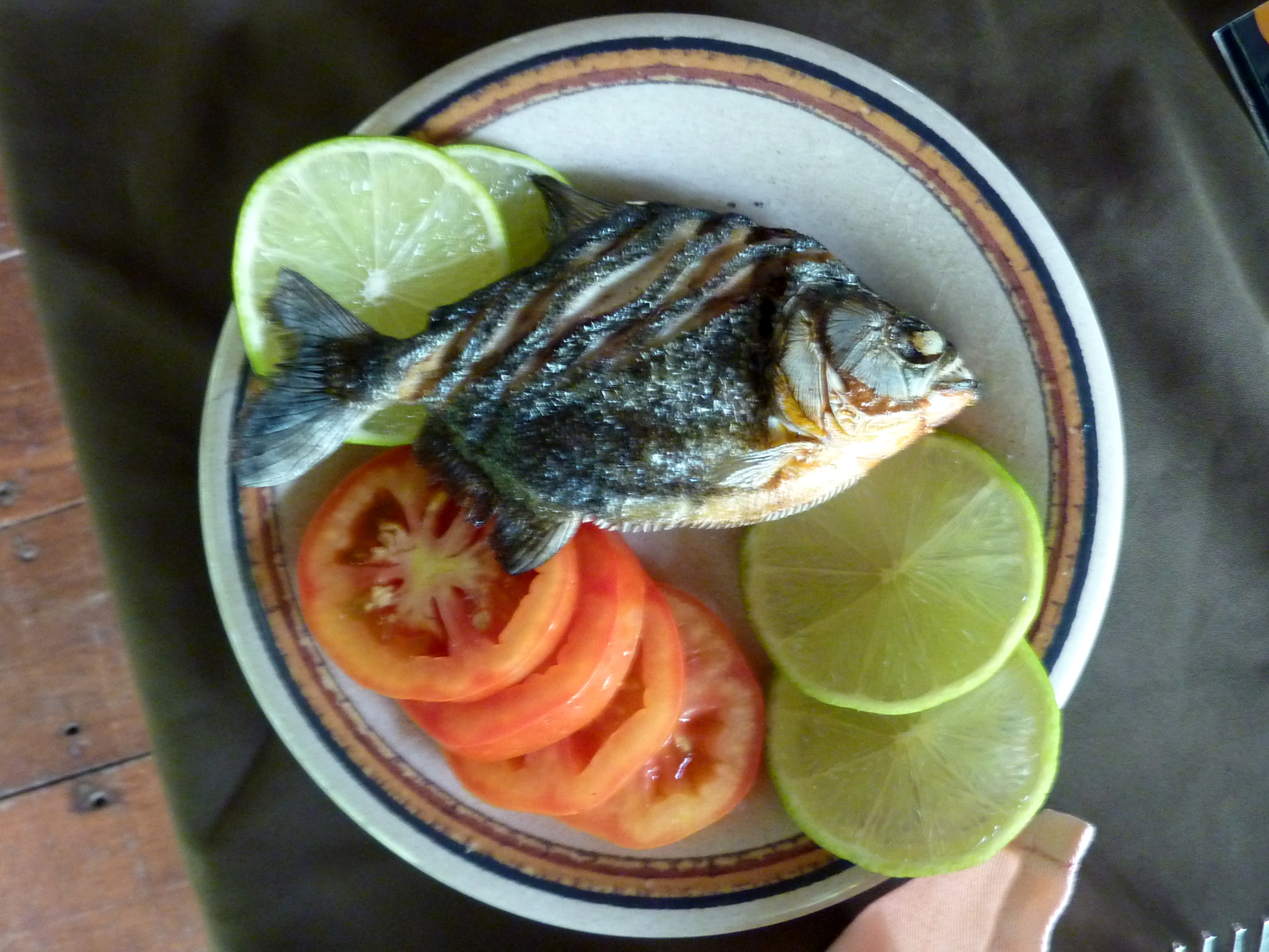 A piranha, caught in the Amazon jungle (though not in the Amazon river itself), lightly grilled and served as food.